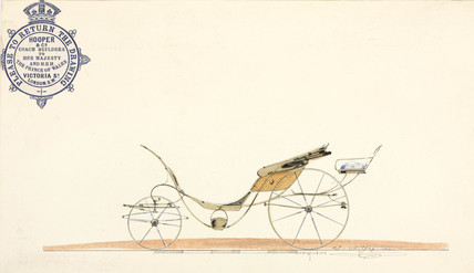 Phaeton, 19th century Drawing of a design for a carriage by Hooper & Co, coachbuilders to Queen Victoria and the Prince of Wales.